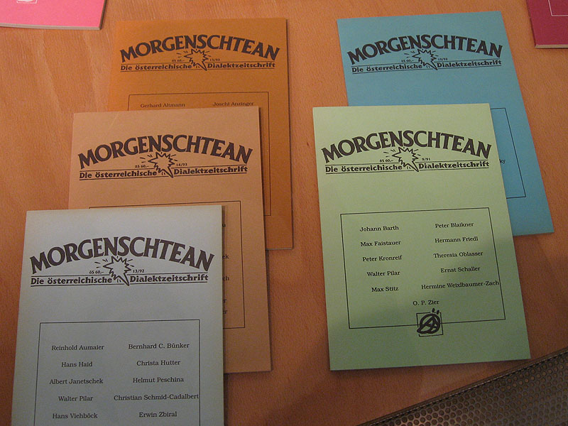 picture of some old editions of the "Morgenschtean", an Austrian magazine on dialect literature, edited by the ÖDA (Österreichische Dialekt-AutorInnen, Institut für regionale Sprachen und Kulturen / Austrian dialect writers, institute for regional languages and cultures), in the design from the 1989-1998 editions photo take at the exhibition "20 Jahre ÖDA" at Literaturhaus, 1070 Vienna, with courtesy of ÖDA president Ms. El Awadalla